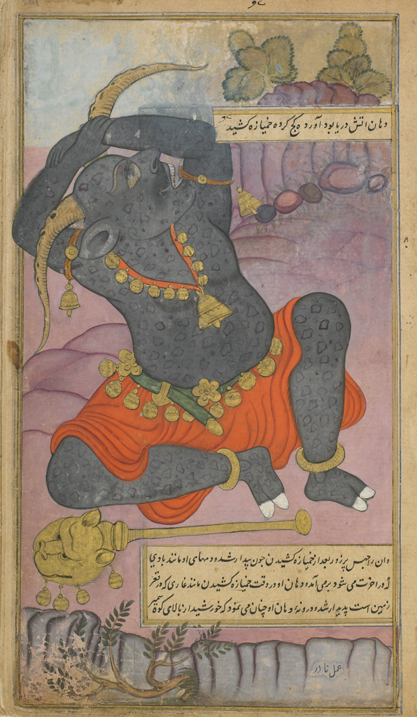 olio from the Ramayana of Valmiki (The Freer Ramayana), Vol. 2, folio 208; recto: Kumbhakarna yawns as he is roused from sleep; verso: text 1597-1605 Nadir (Bihhud) , (Indian, Mughal dynasty Opaque watercolor, ink, and gold on paper H: 27.5 W: 15.2 cm Northern India Gift of Charles Lang Freer F1907.271.208